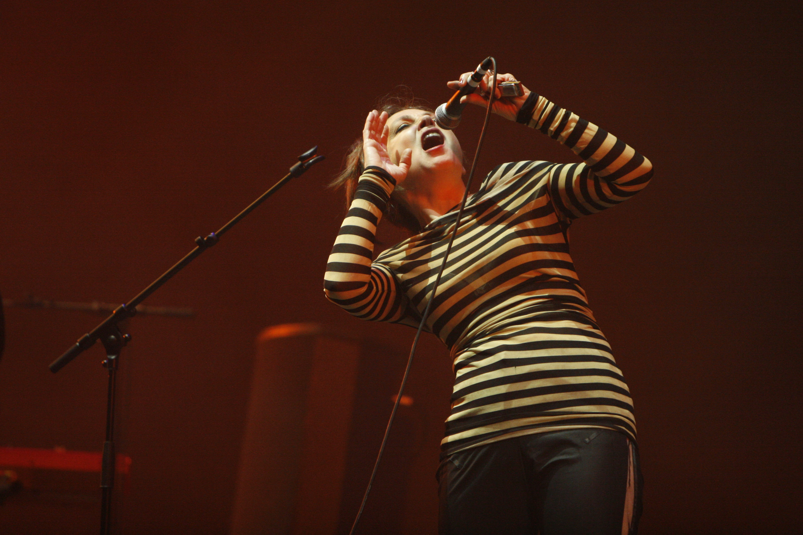 Les Rita Mitsouko at the Eurockéennes of 2007